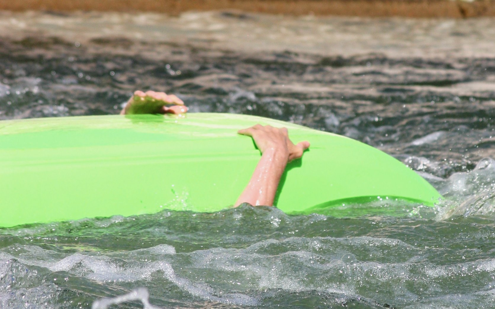 The kayaker in the capsized green kayak claps on his hull to attract the attention of his fellow kayakers; then he moves his hands along the boat to feel when another boat arrives to T-rescue him. Pueblo, Colorado, USA